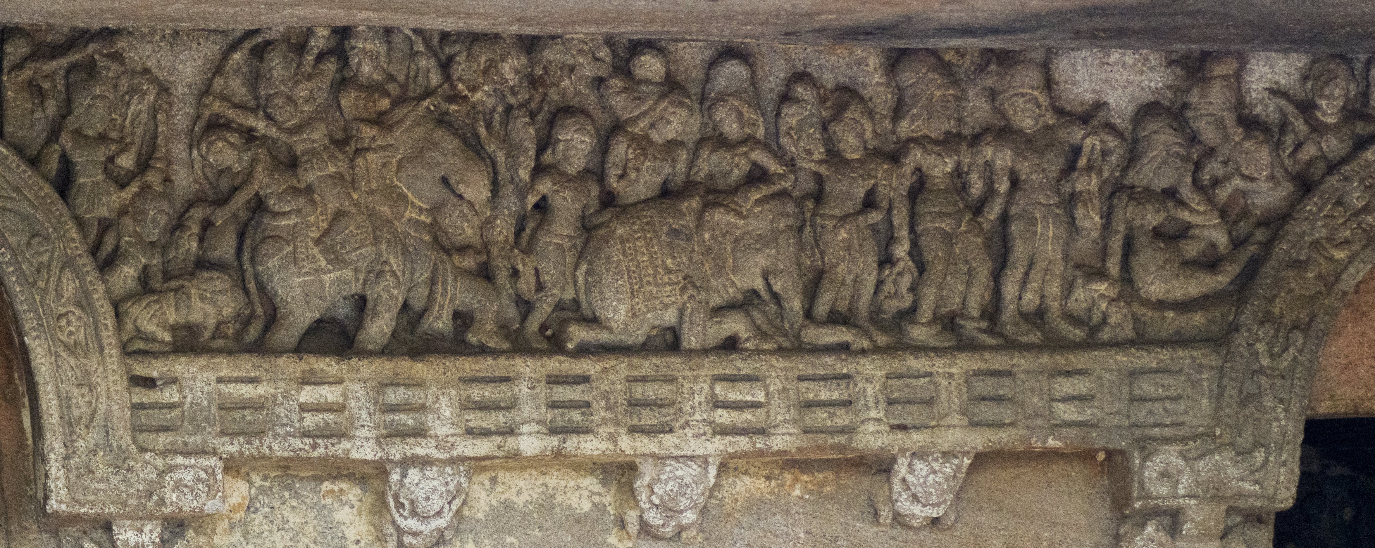 An example of art work in udayagiri caves